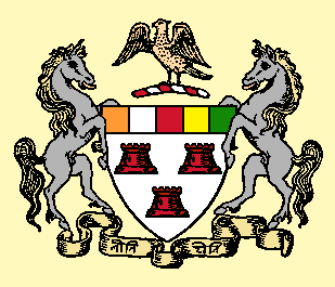 Coat of arms of the Indian princely state of Kishangar